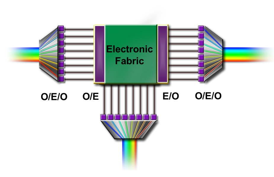 OEO switching